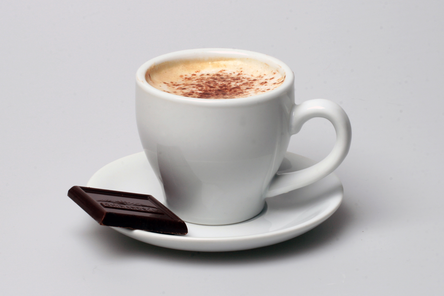 This is my entry for David Yeiser's coffee photo mini-contest. ( / yvhgux) I made this cappuccino at home with a $30 machine hoping that it would help me stay up for the UofL v. Tenn Sweet 16 NCAA basketball game. I thought most entries would probably be on-location, so why not submit a studio shot with the added bonus of also having made the cappuccino. Please excuse the dust on my sensor.